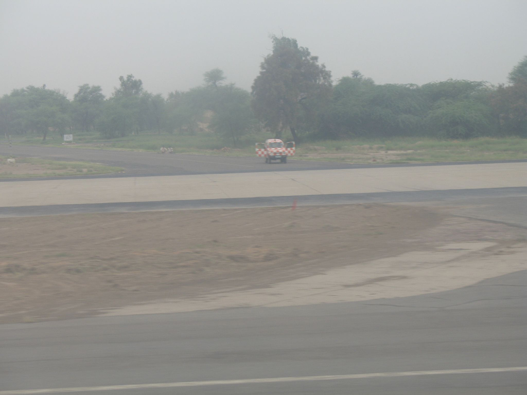 Clearing the runway at Faisalabad Airport